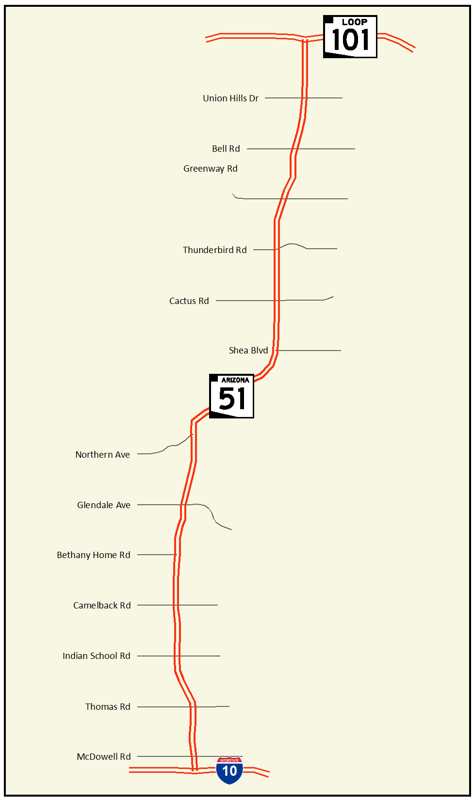 Map of Arizona State Route 51